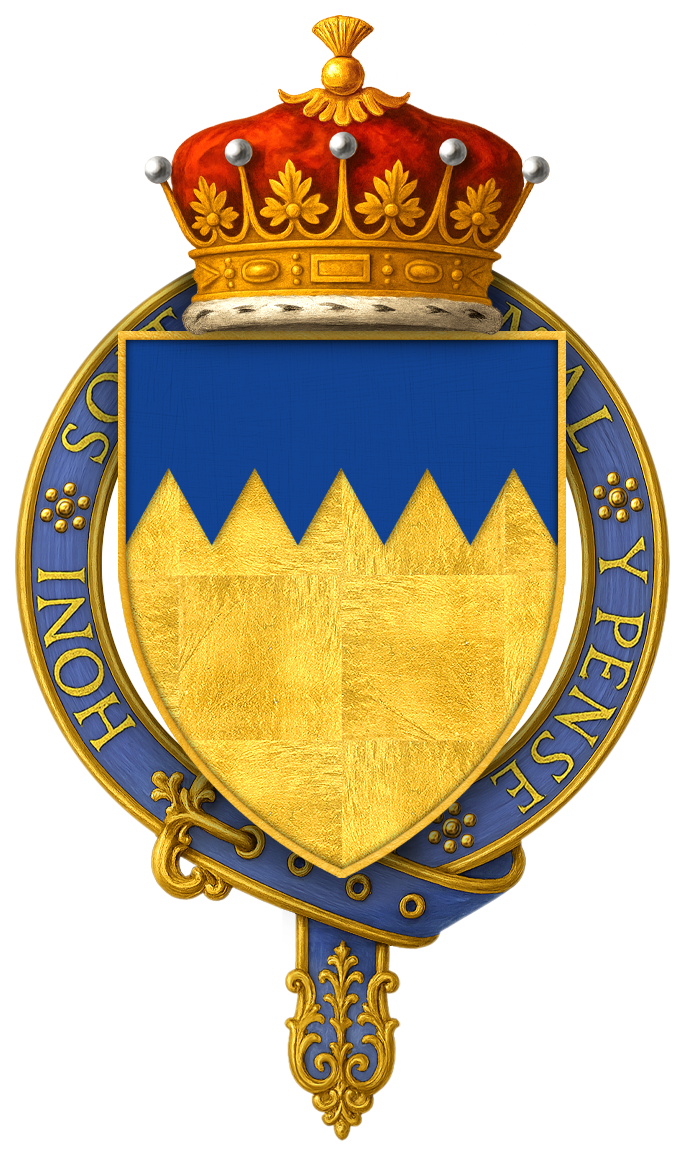 Coat of arms of Sir Thomas Boleyn, 1st Earl of Wiltshire and Ormond, KG The stall plate of Thomas Boleyn survives in St. George's Chapel, displaying arms of: Or, a chief indented azure. These are the arms of Walter, the "ancient arms" of Butler, the family of his maternal grandfather, Thomas Butler, 7th Earl of Ormonde, which family adopted as "modern arms" Gules, three covered cups or. Thus Thomas Boleyn ceased to use his paternal arms of Argent, a chevron gules between three bull's heads afrontée sable.